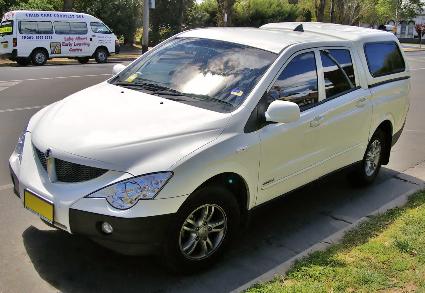 2008 SSangyong Actyon Sports.